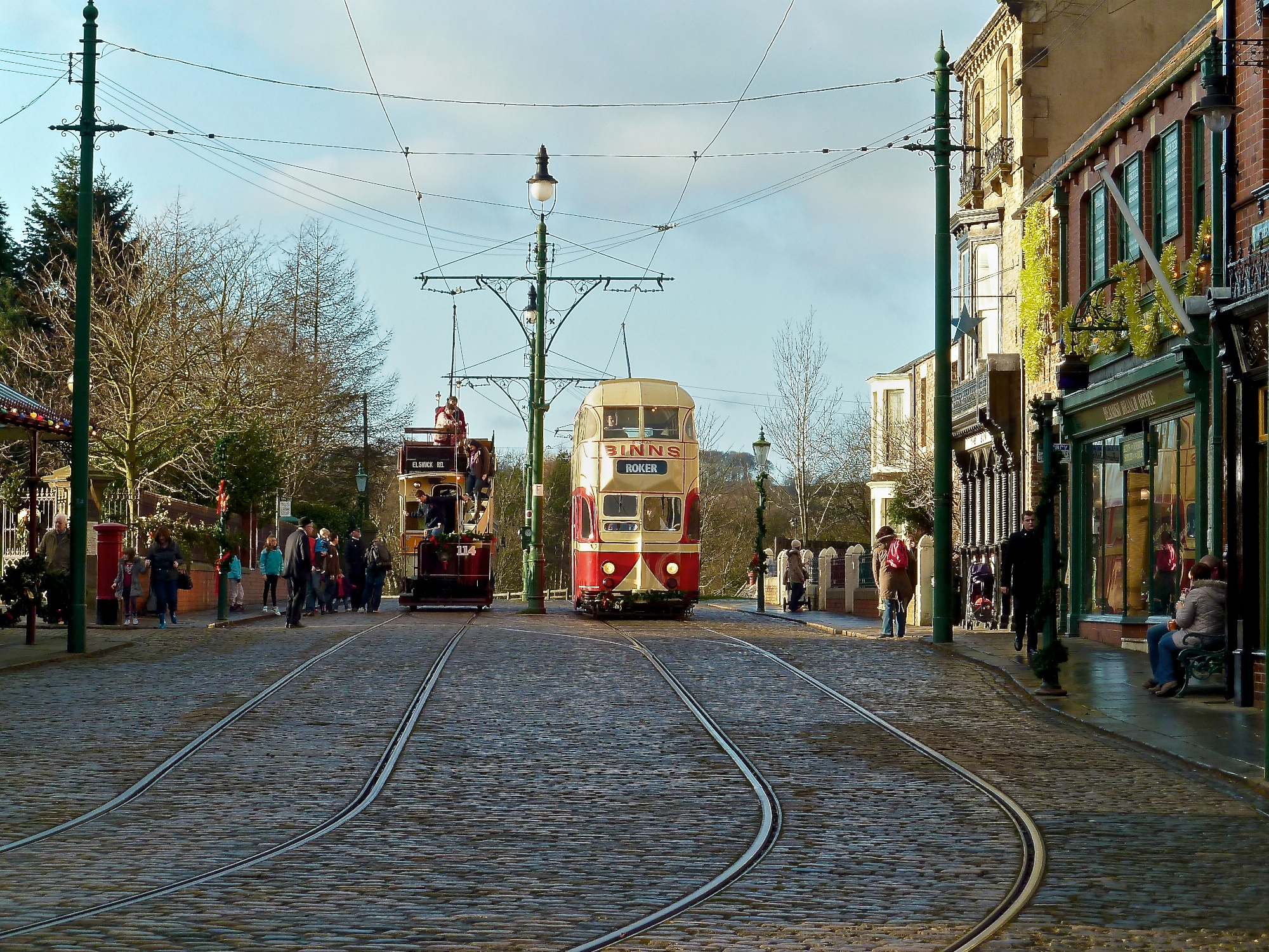 Beamish Museum, County Durham, England. This is the view west down the main street in the Town, which features this double-tracked section of the tramway running along it. On the left, tram No. 114 is unloading at the stop next to the park while working a westbound journey. On the right, No. 101 is working an eastbound journey.